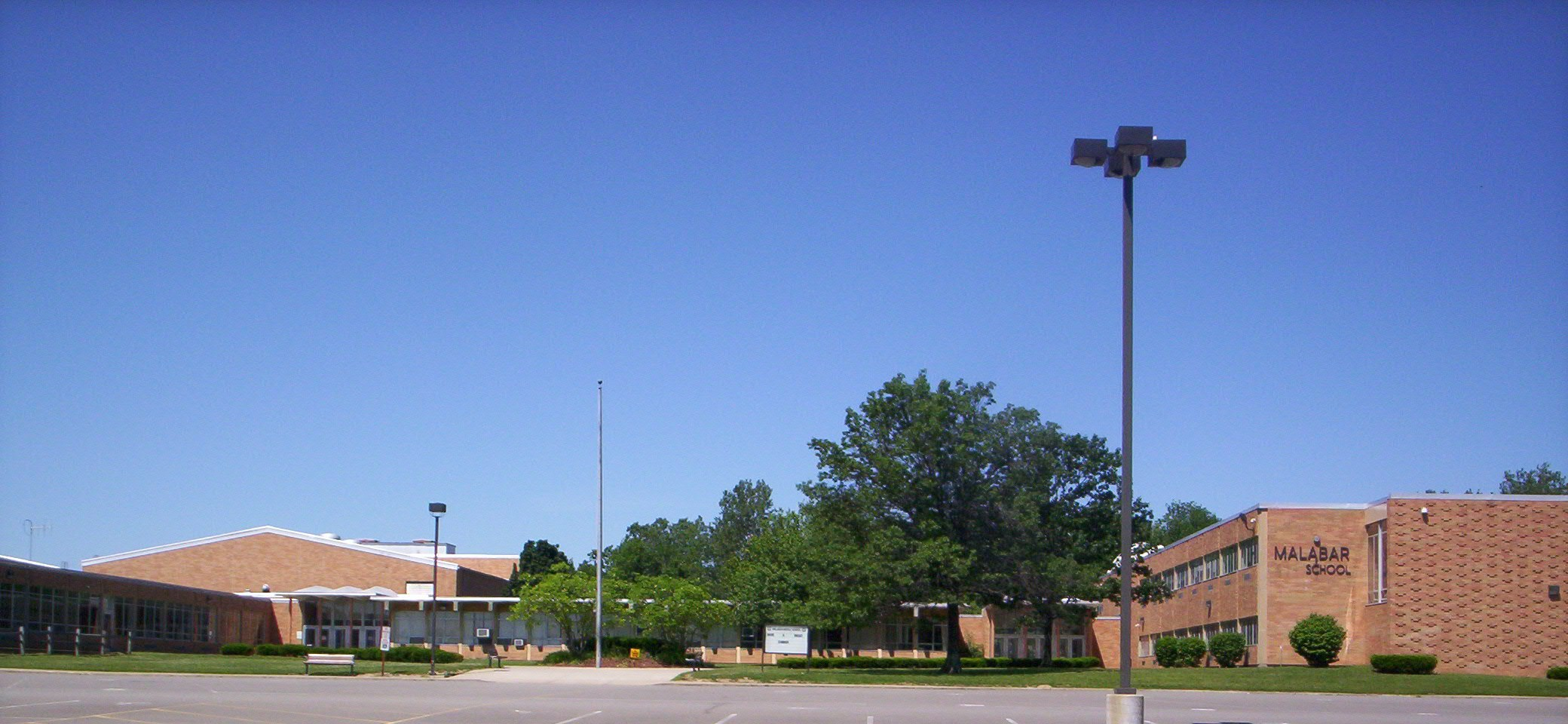 A view of Malabar Middle School on West Cook Road in the Mansfield City School District in Mansfield, Ohio.